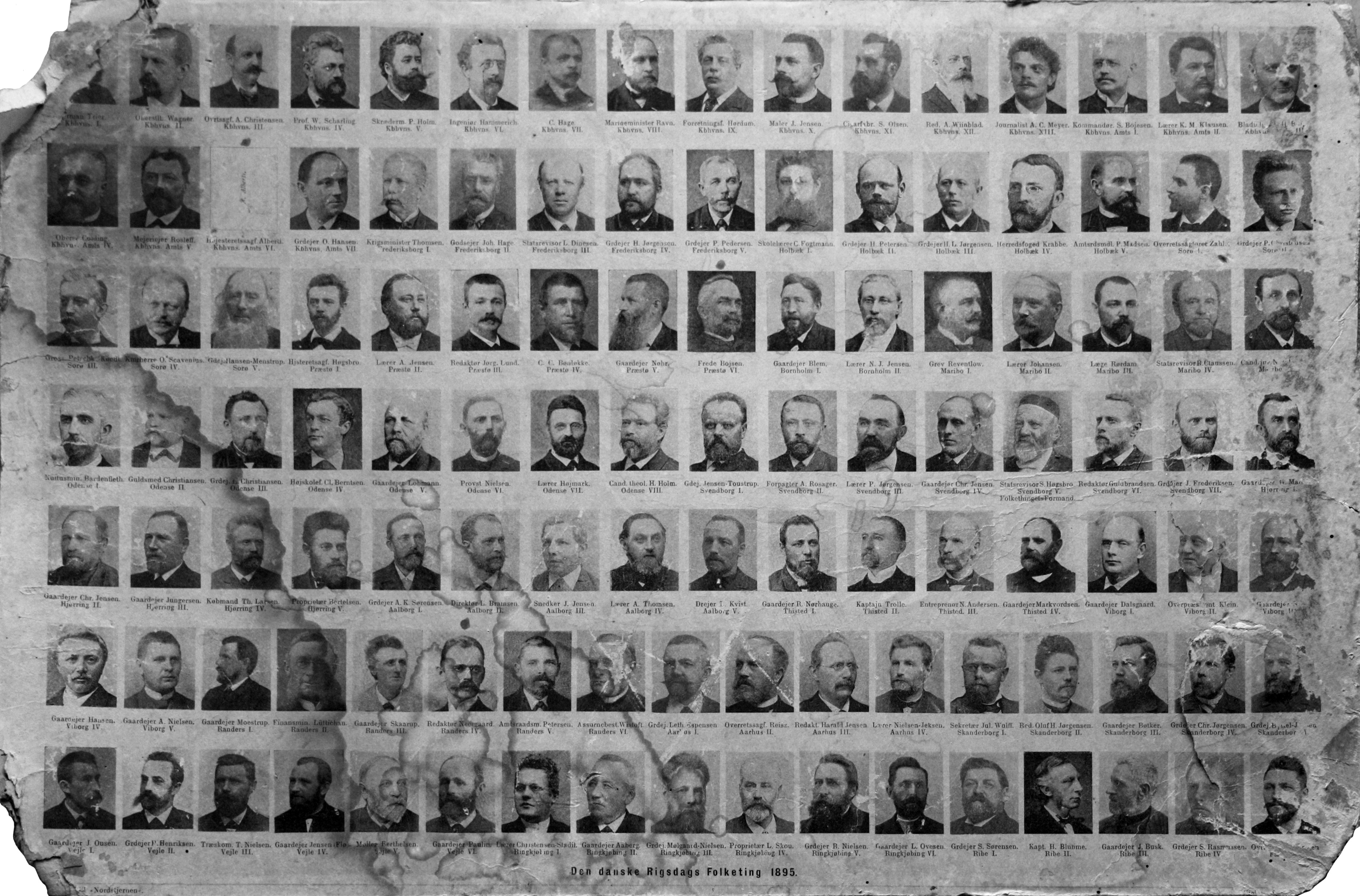 Board showing all members of the Danish parliment, 1895